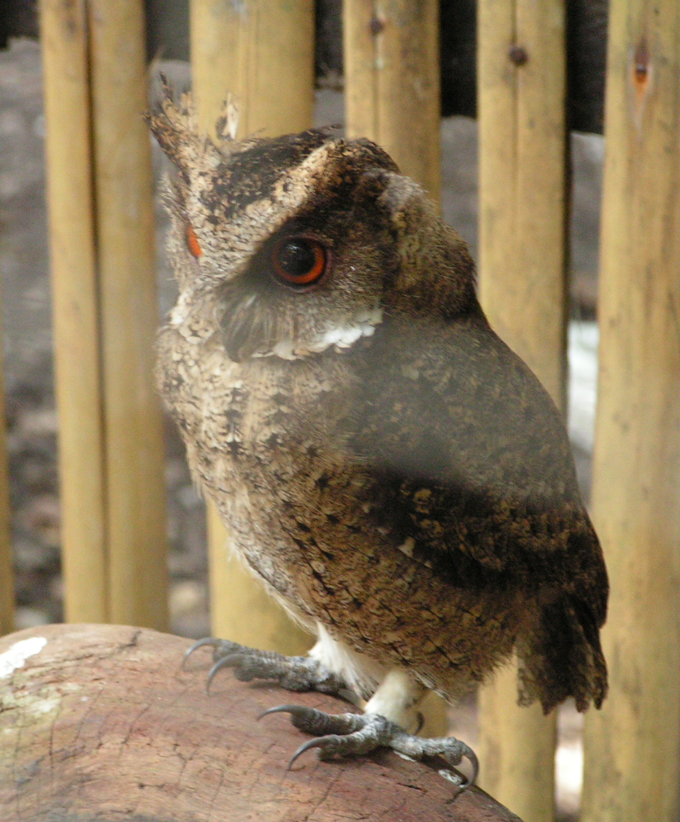 Philippine owl, Bohol province